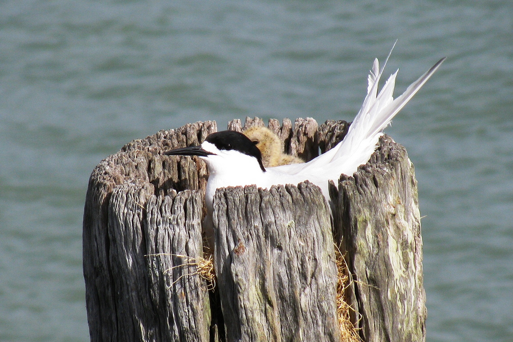 An adult White-fronted Tern and a chick in a nest at Bayswater, Auckland City, New Zealand.